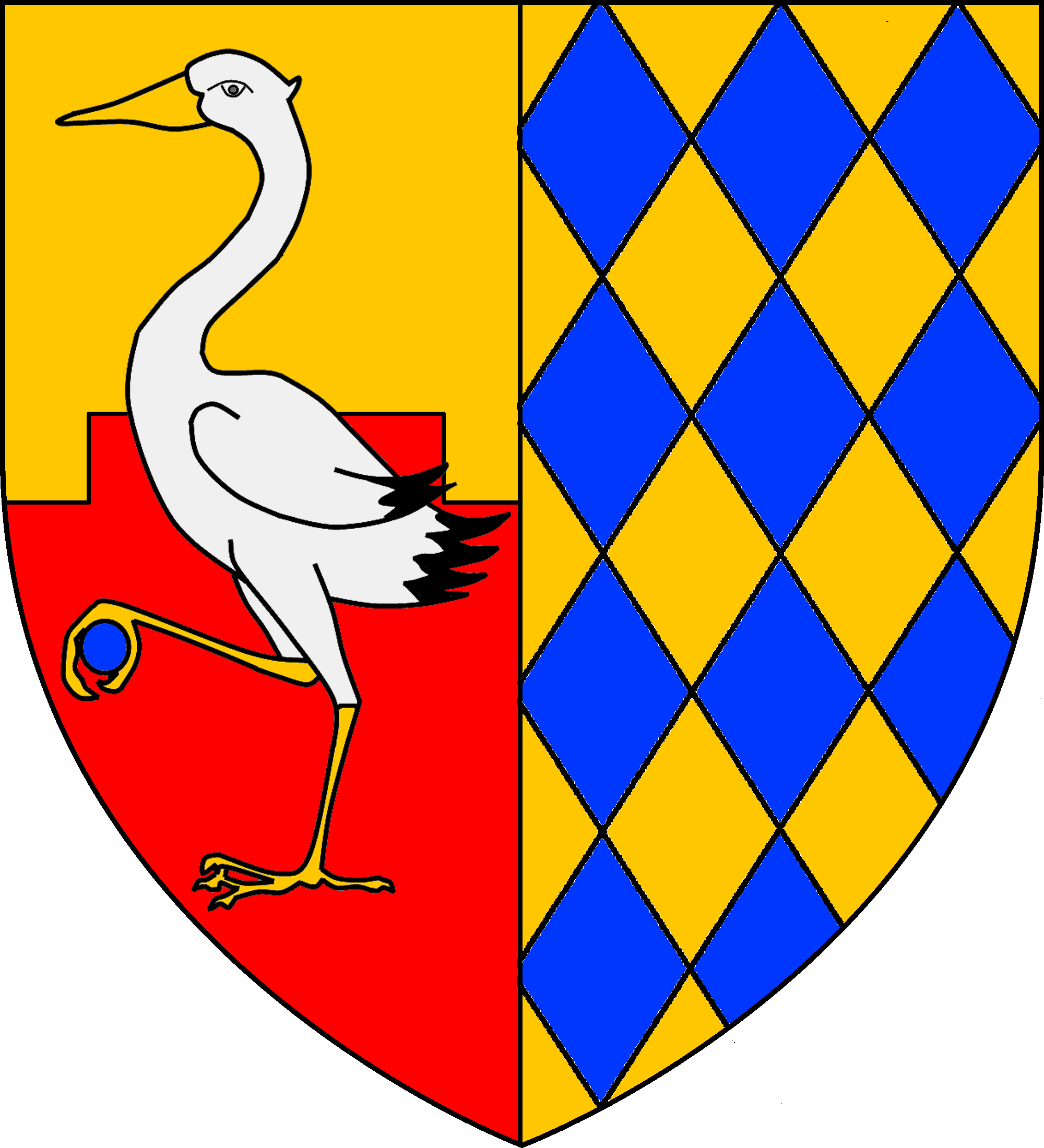 Escudo de armas de la familia LaGrua